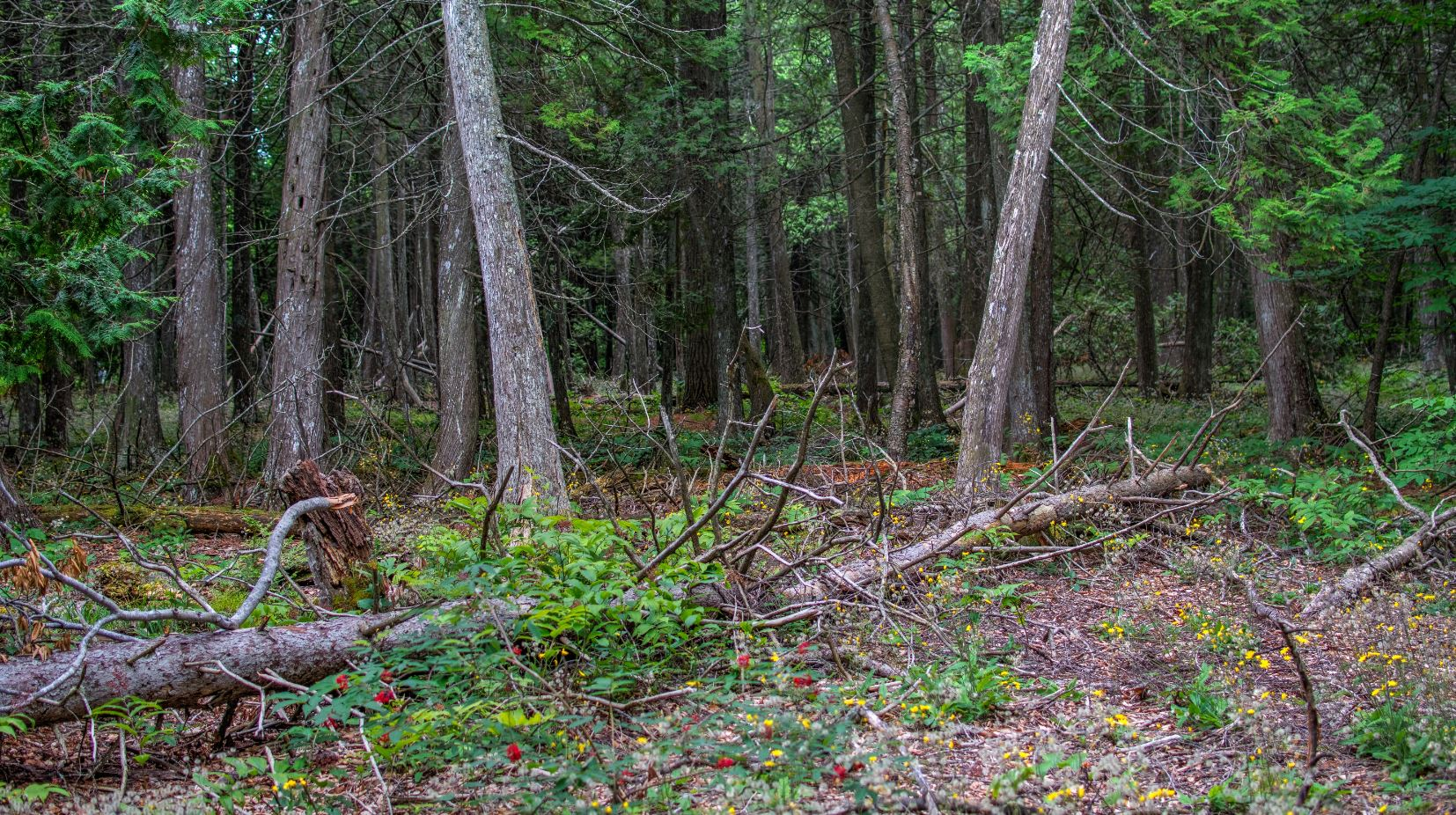 Just one of Mackinac Island's many extensive, deep forests.